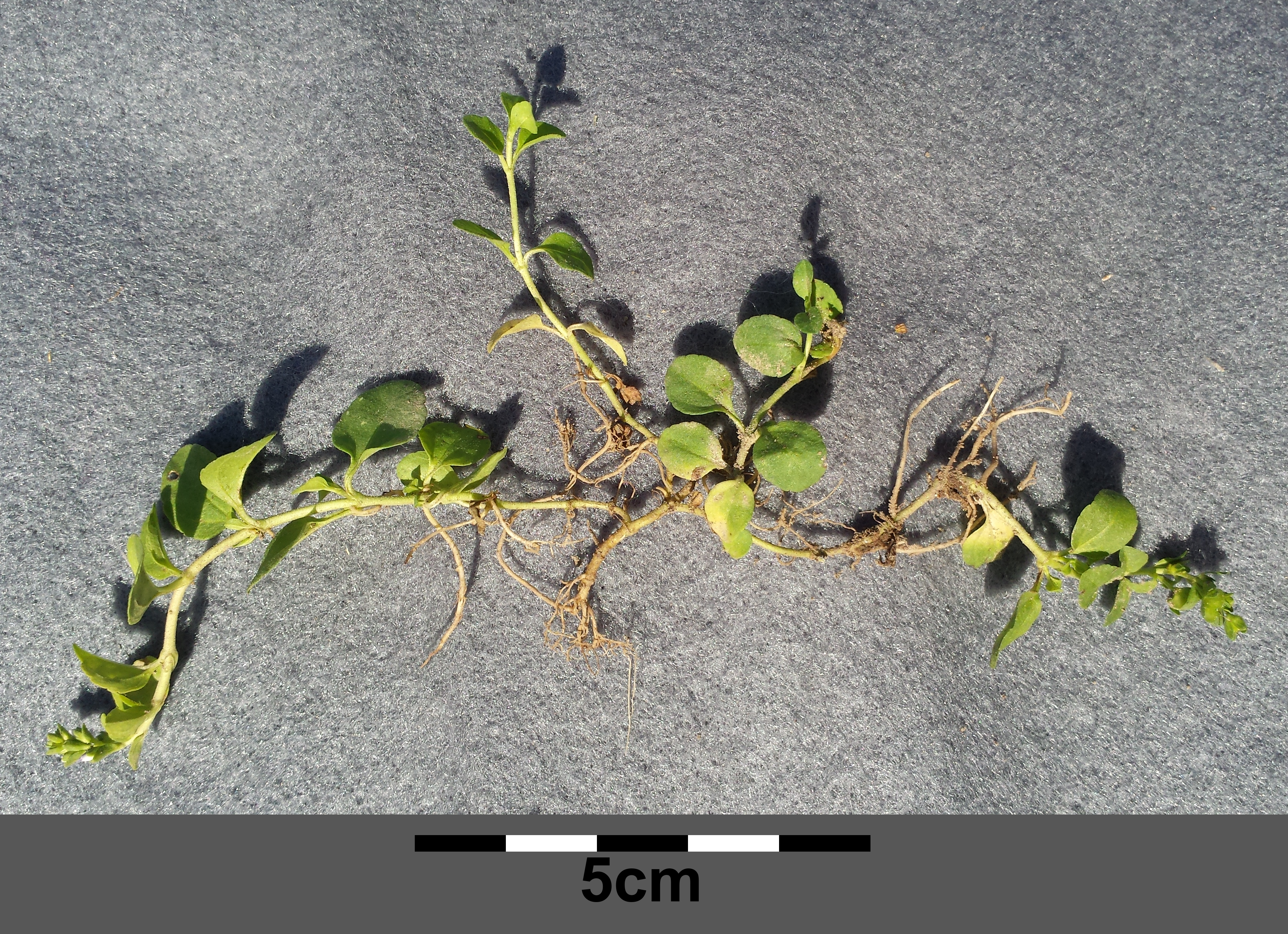 Whole plant Taxonym: Veronica serpyllifolia subsp. serpyllifolia ss Fischer et al. EfÖLS 2008 ISBN 978-3-85474-187-9 Location: Stammersdorfer Zentralfriedhof cemetery, Vienna-Floridsdorf - ca. 160 m a.s.l. Habitat: grave